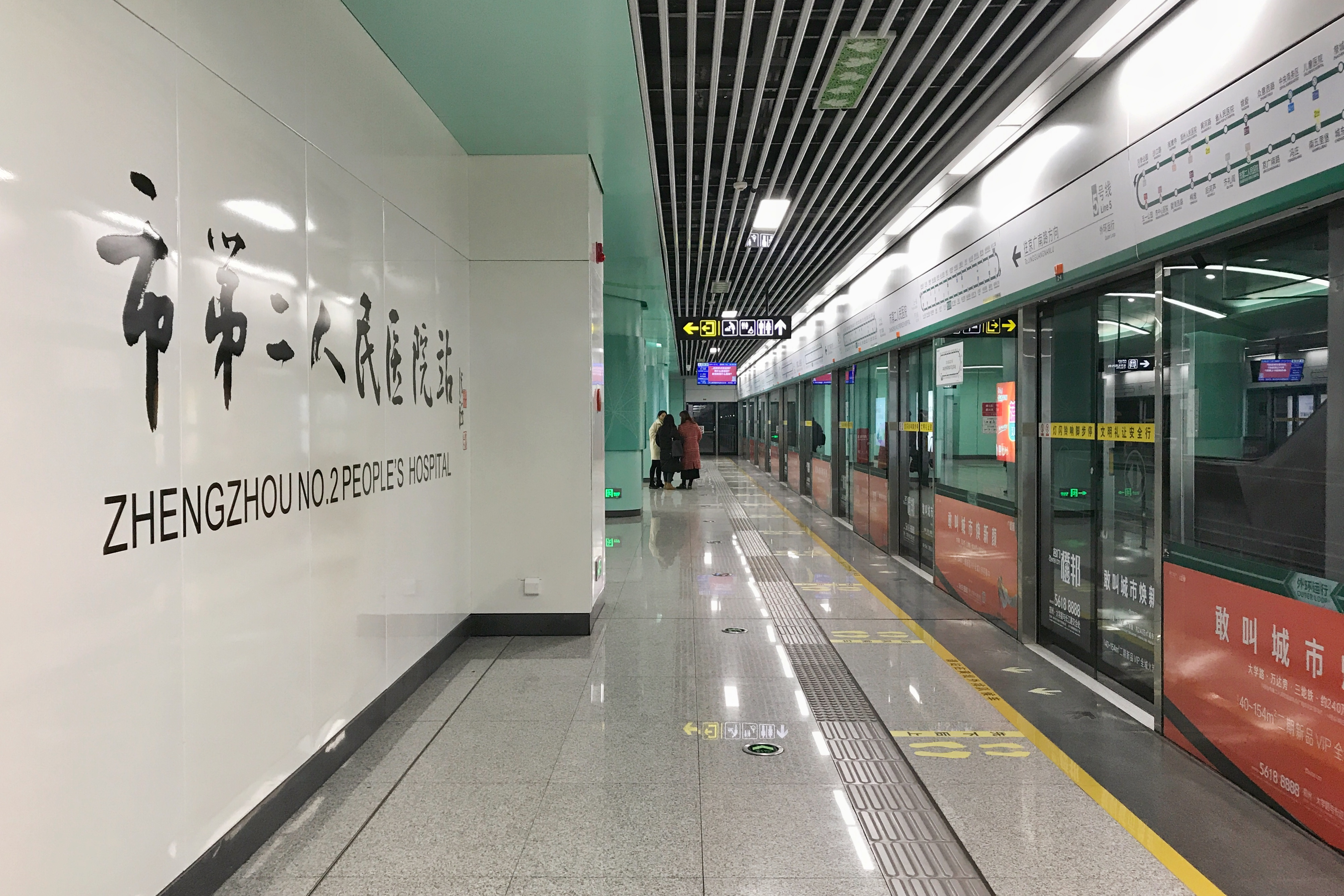 Platform and station calligraphy of Zhengzhou No. 2 People's Hospital Station